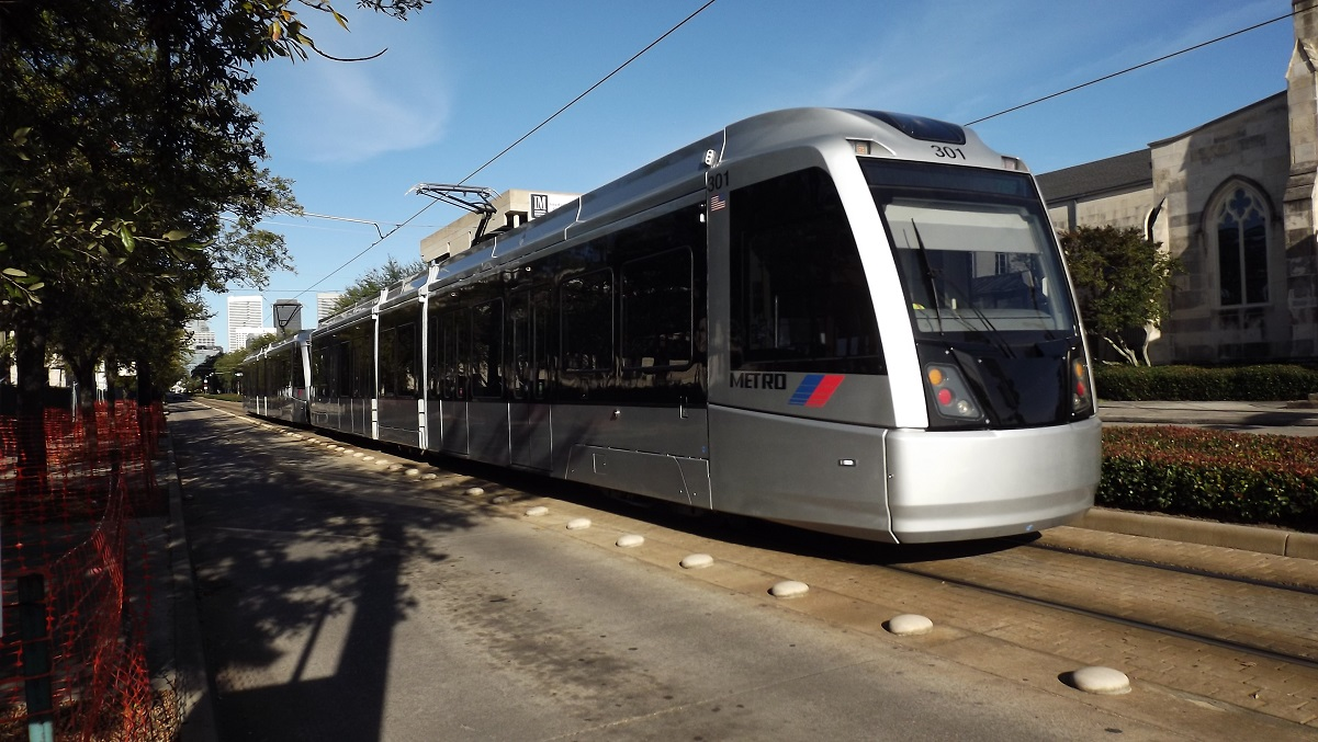 Brand new Houston CAF (class H3) car southbound at Main and Holman Street near Ensemble/HCC station